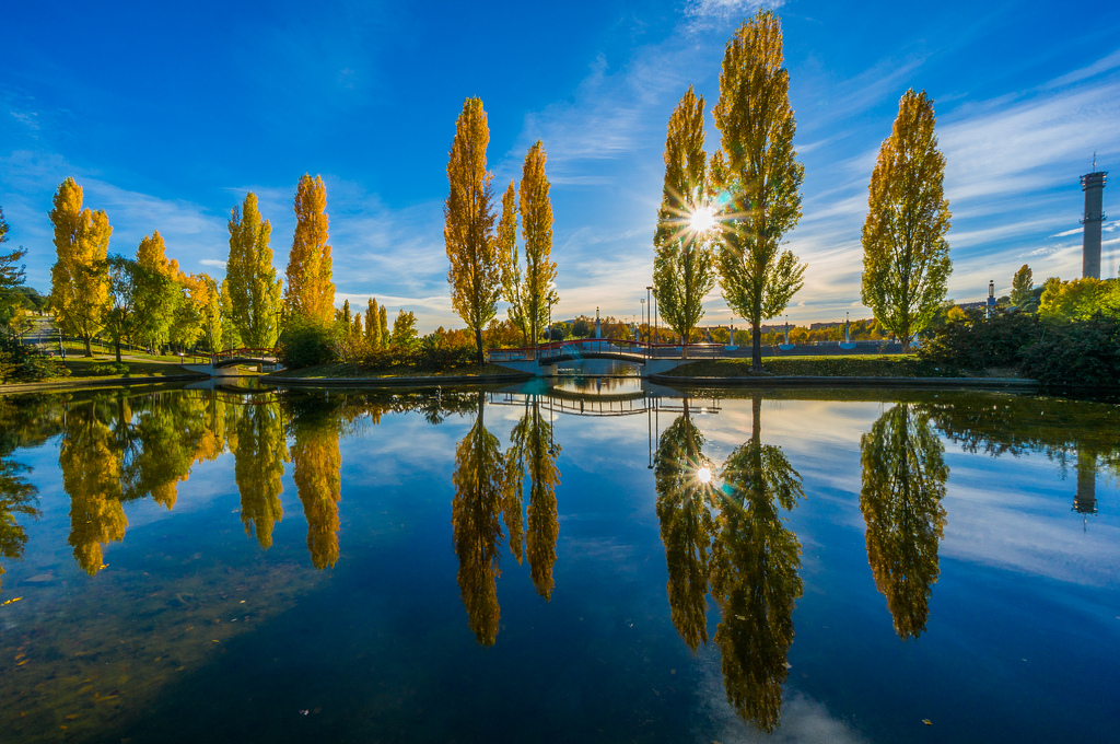 Tres Cantos